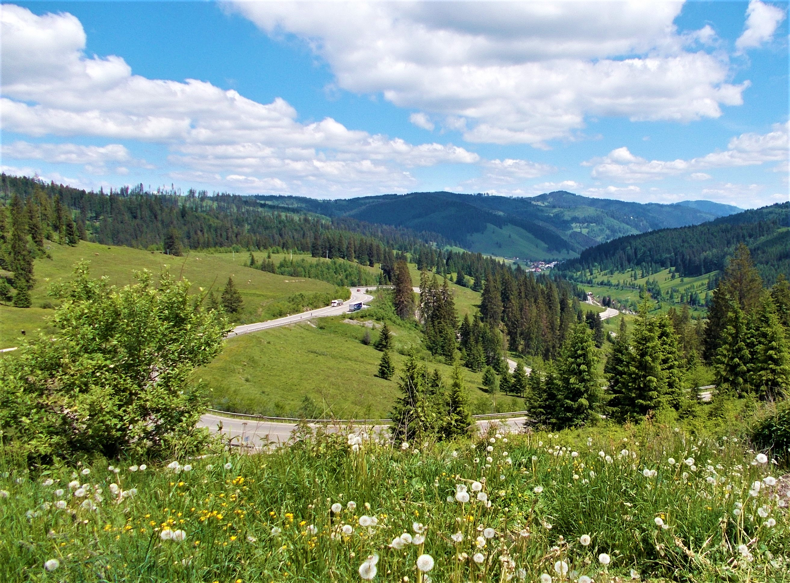 Mestecăniș Pass, Suceava County, Romania